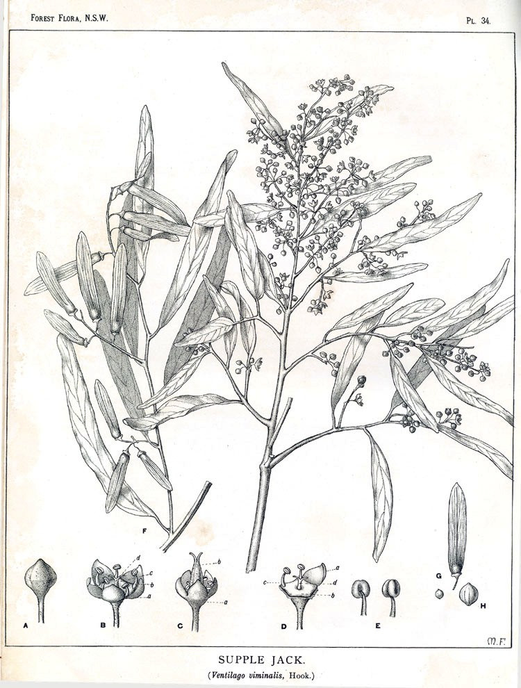 Supple Jack, Ventilago viminalis Hook., Plate 34 from Forest Flora of New South Wales by by Joseph Henry Maiden (1859–1925)